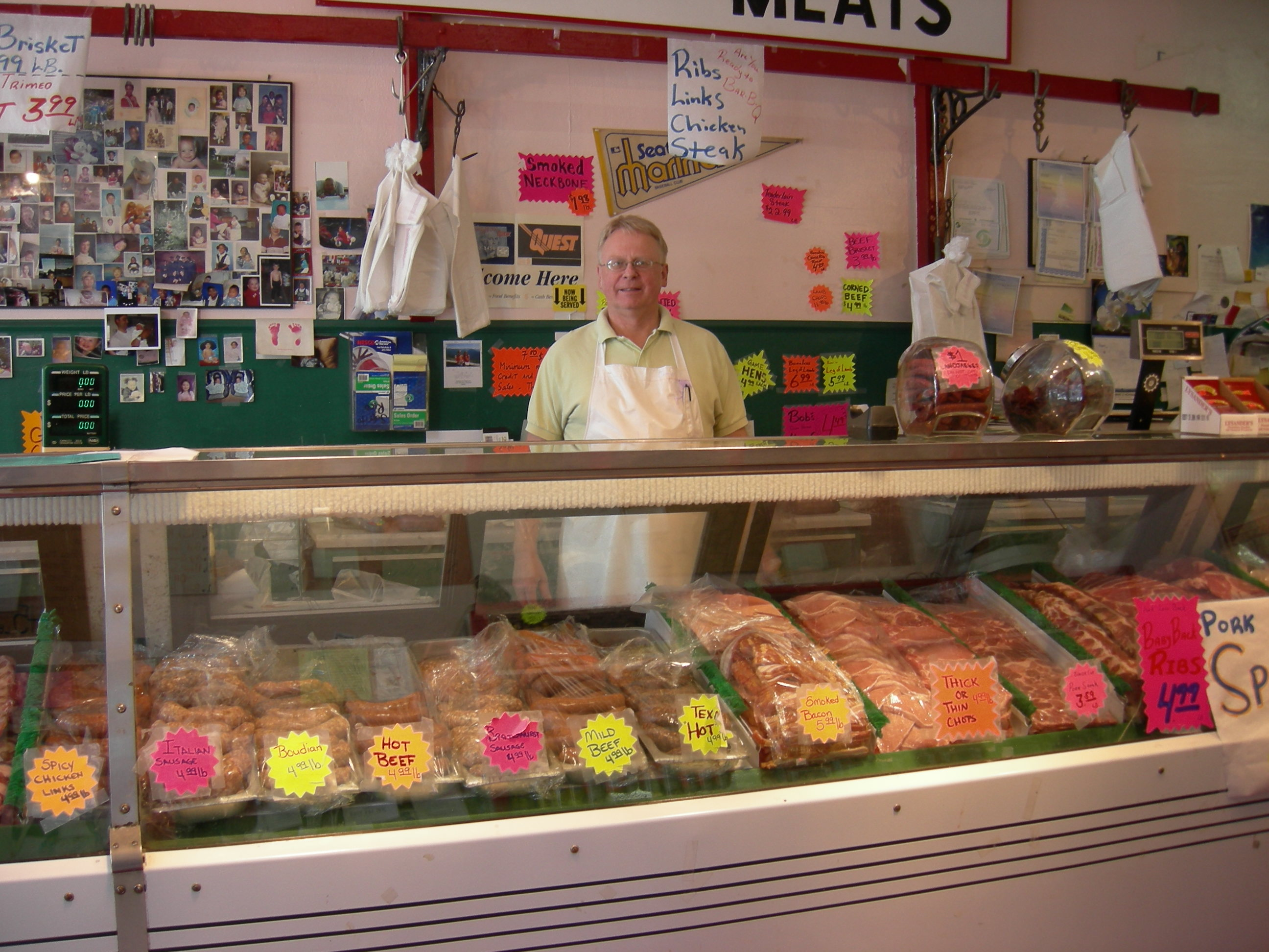 Bob's Quality Meats, Columbia City, Seattle, Washington.